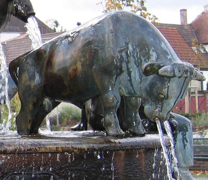 view of Enkenbach, Germany